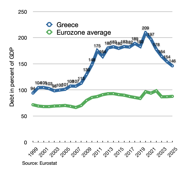 Greece's recent debt history since 1999. 1999-2011: Eurostat data: (see "General government gross debt") (see also: 2010-2015: Eurostat data: (latest update: October 2013) Once Ernst & Young updates their forecasts, then we could use their data as well: 2015-2016 estimates from Ernst & Young using data from Oxford Economics ; (latest update: June 2012)